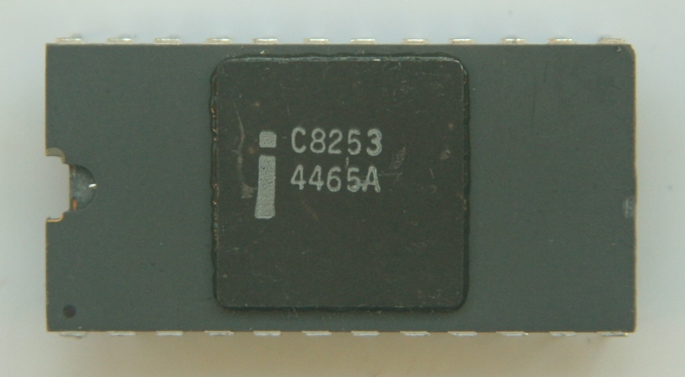 IC photo